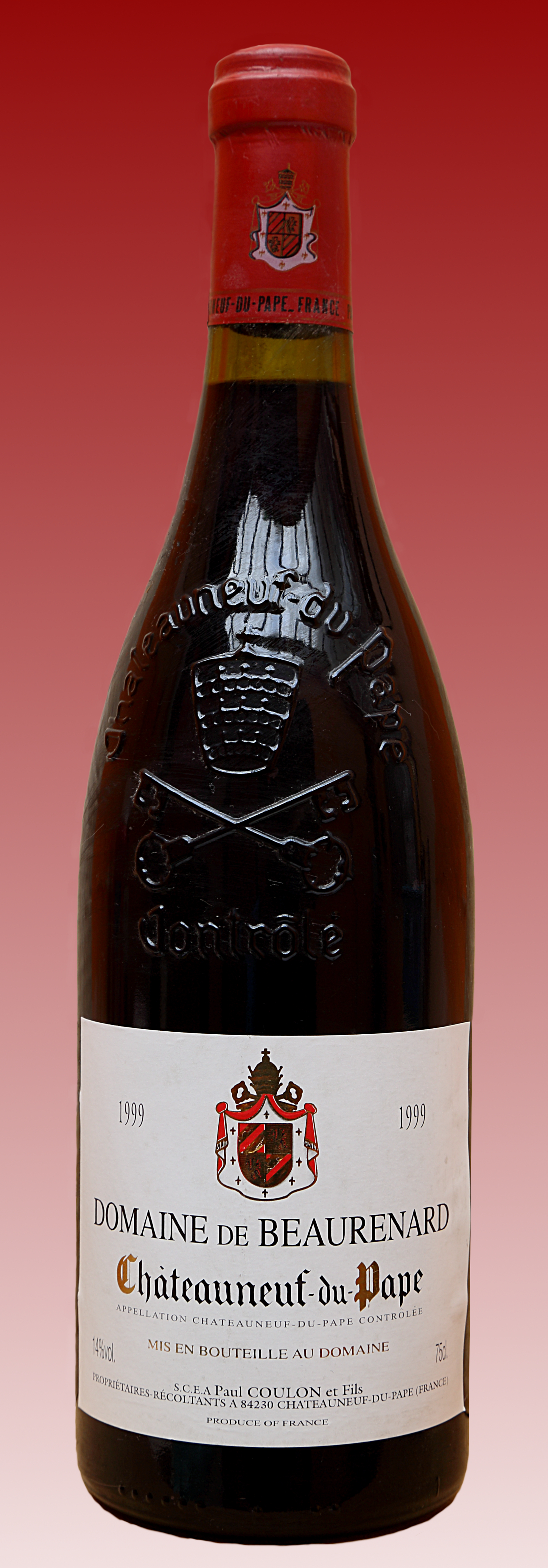 Bottle of Domaine de Beaurenard 1999, picture taken in Belgium.